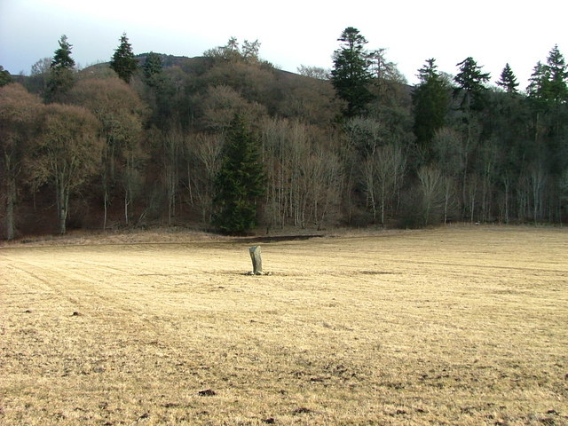 Claverhouse's Stone John Graham of Claverhouse, 1st Viscount Dundee, otherwise known as " Bonnie Dundee " is reputed to have lain against this stone and died of his injuries sustained when his Jacobite troops were victorious against 4000 Government soldiers at the Battle of Killiecrankie.